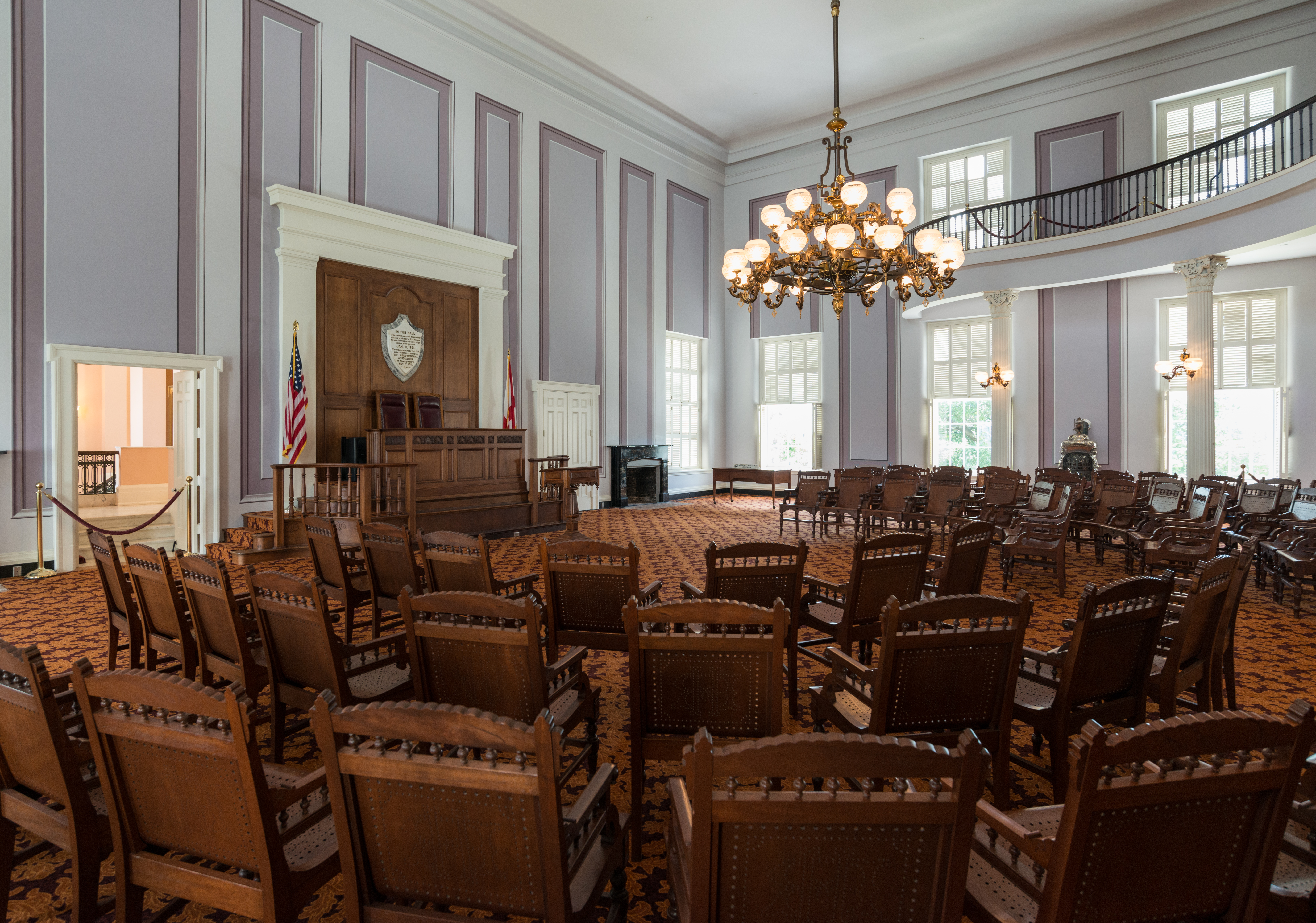 A view of the former House of Representatives chamber, Alabama State Capitol, Montgomery